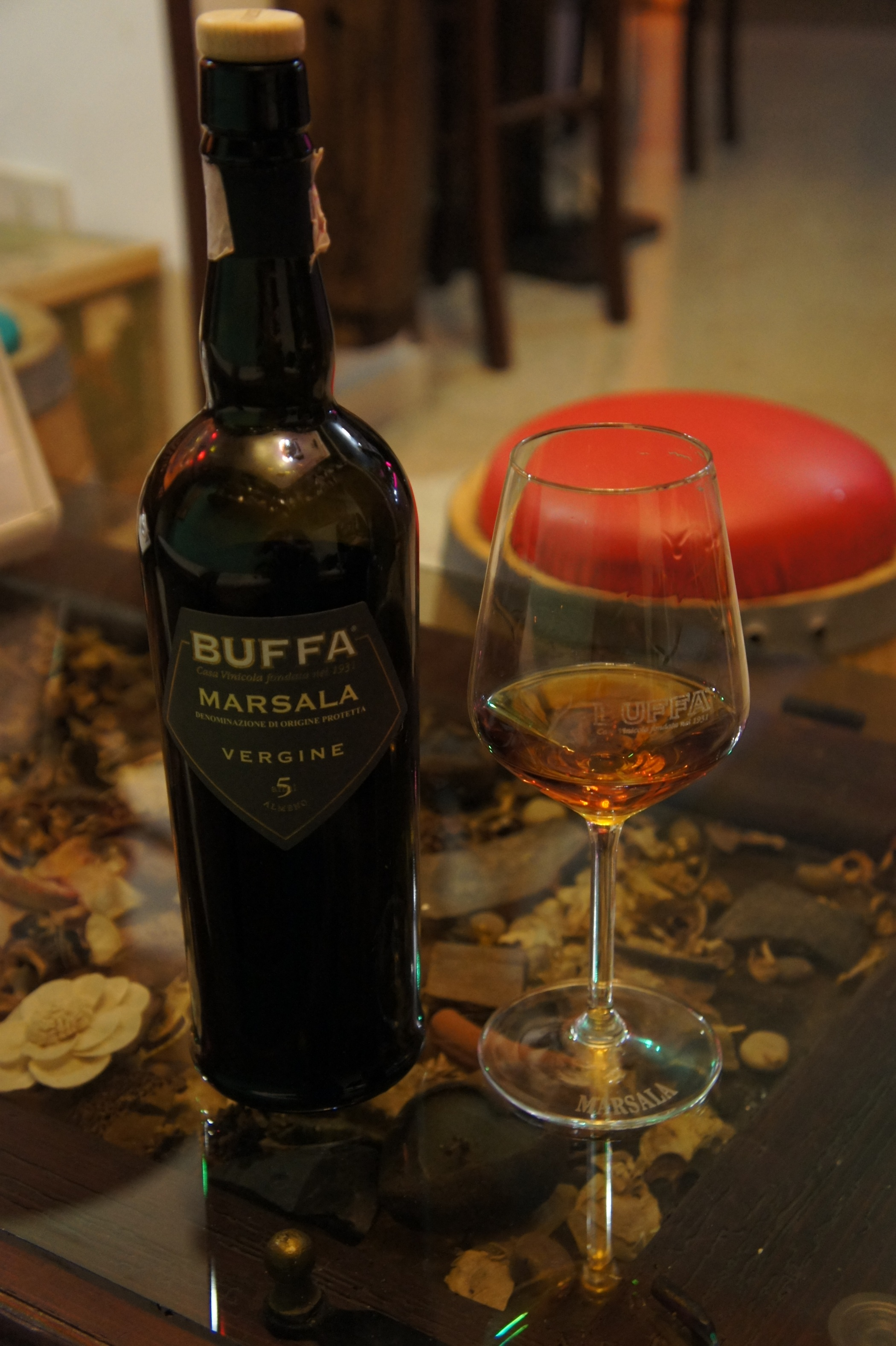 A Vergine Marsala from the Italian wine region of Sicily that has been aged in a solera.